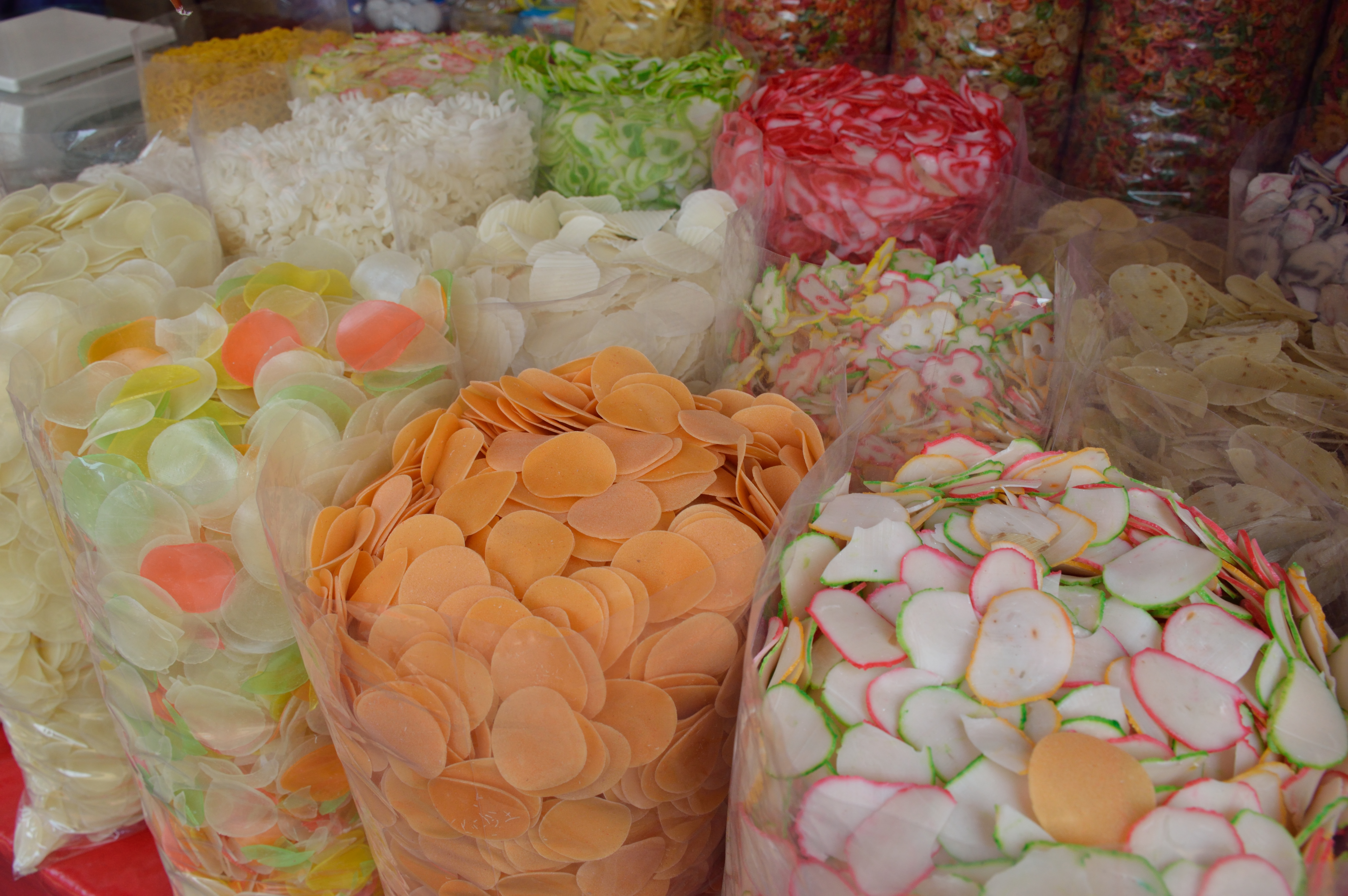 This shot was taken during the Durga puja festival in Kolkata.